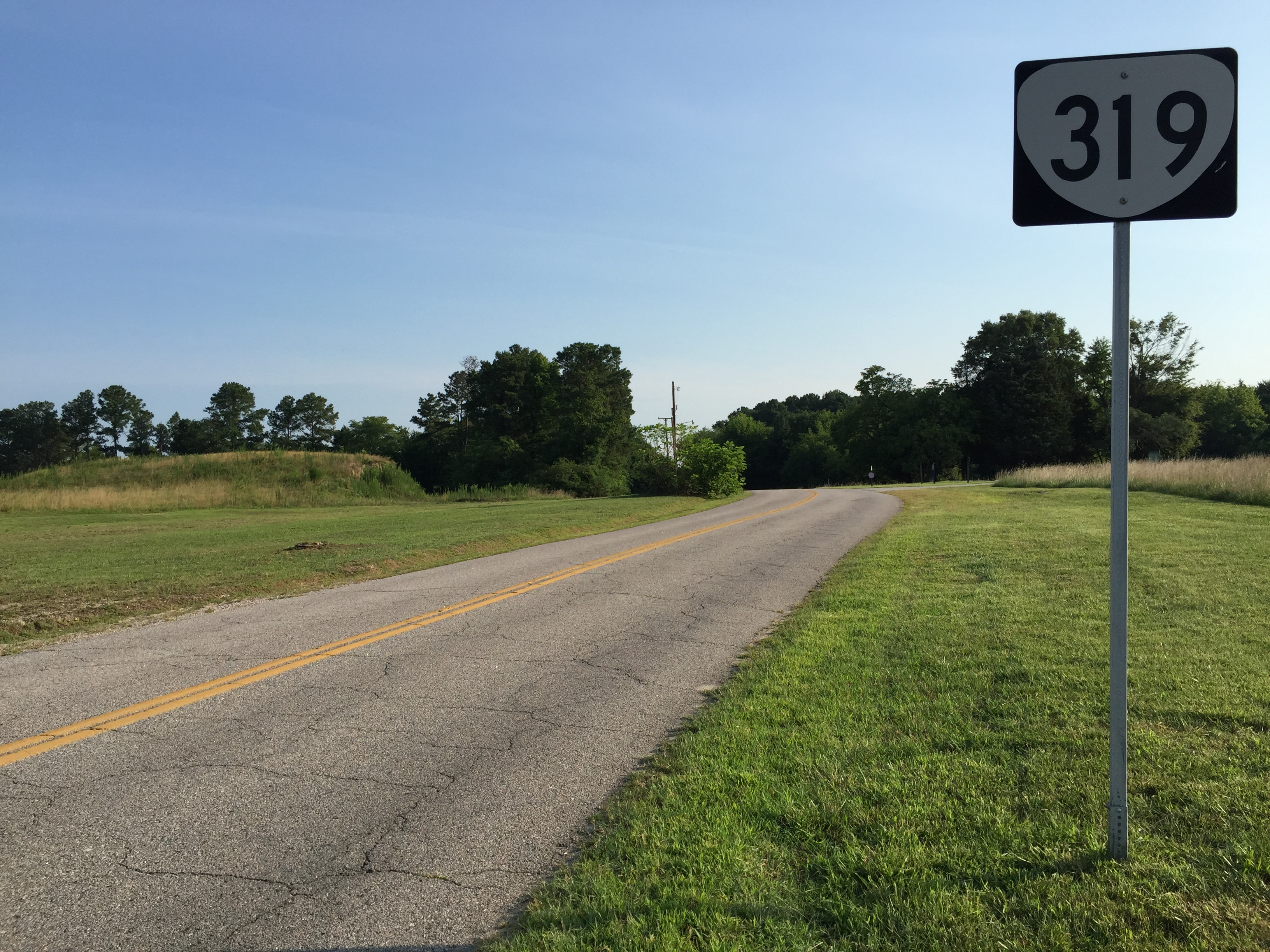 View north along Virginia State Route 319 (Seventh Avenue) at Virginia State Route 142 (Simpson Road) at the Central State Hospital just southwest of Petersburg in Dinwiddie Countyk, Virginia